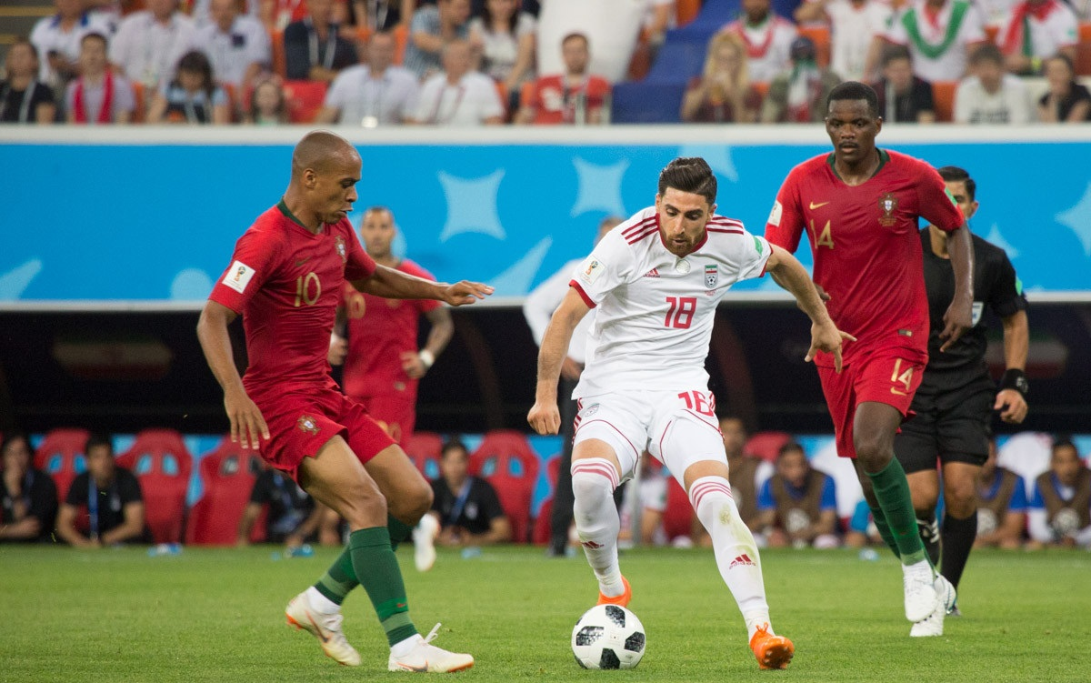 Iran-Portugal match, 2018 FIFA World Cup Group B